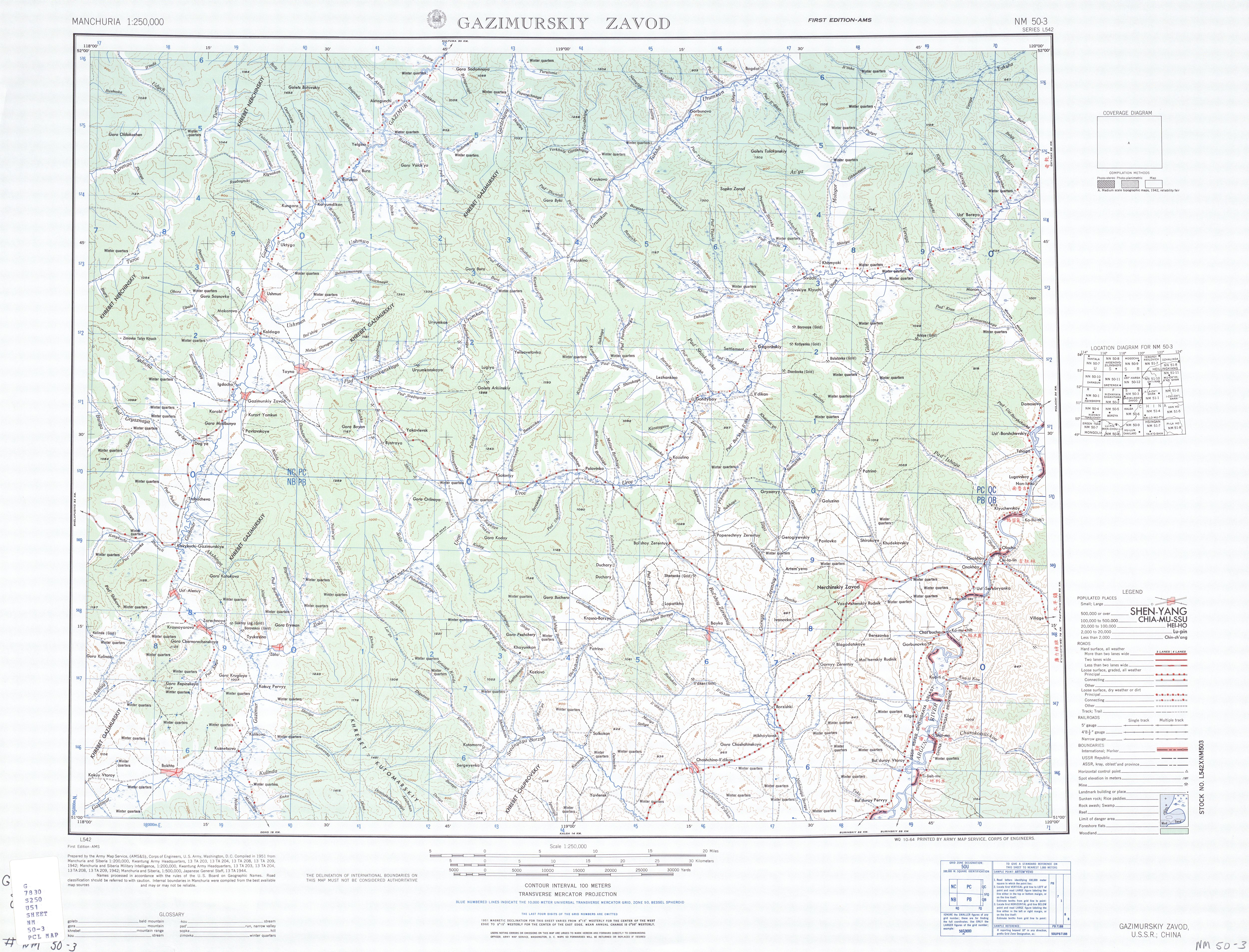 Map of Gazimursky Zavod (Gazimurskiy Zavod) area, USSR (present-day Russia)